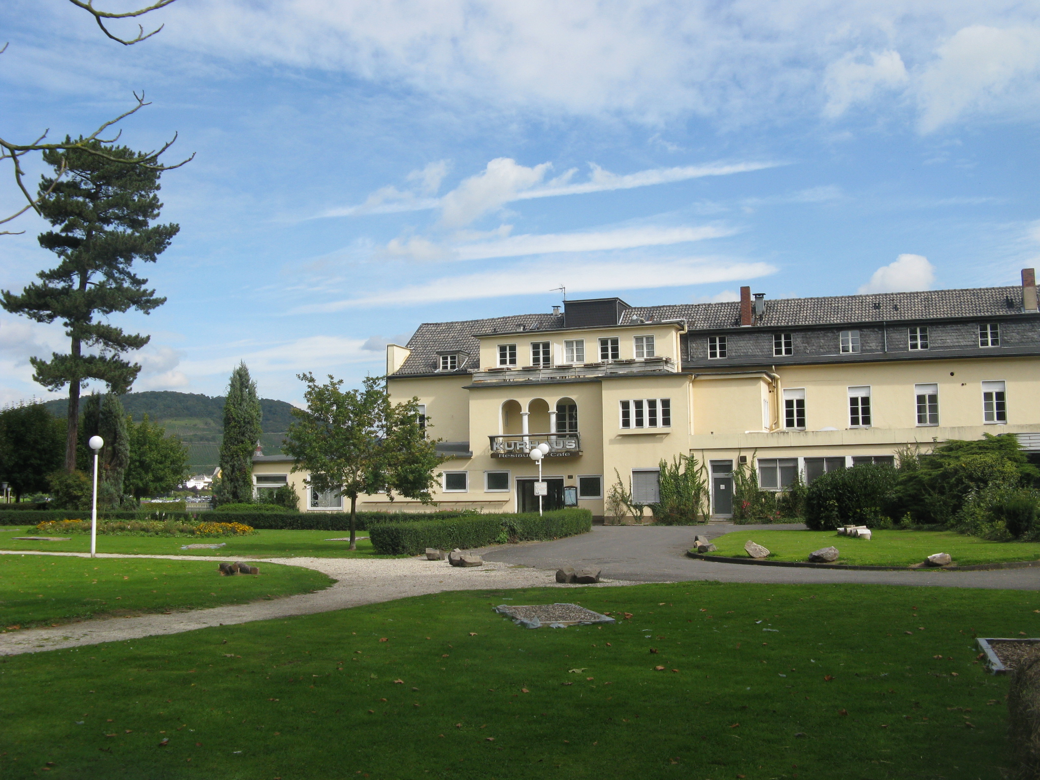 Spa building, Bad Breisig/Rhine Valley, Germany